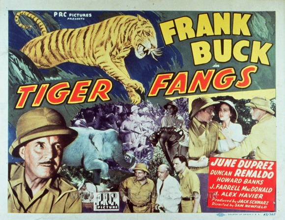 This is a movie poster for the film, Tiger Fangs (1943). Source: personal collection